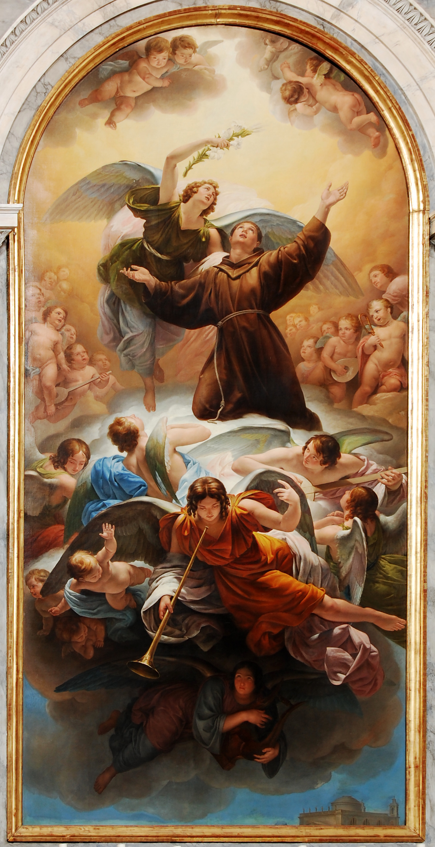 Sant'Antonio in Gloria by Odorico Politi (1785-1846). One of six large altar pieces in the Sant'Antonio Taumaturgo church in Trieste, Italy. (The church itself is represented in the lower right corner of the painting.) This is a retouched picture, which means that it has been digitally altered from its original version. Modifications: The painting was photographed at an angle to minimize reflections. Perspective was afterwards corrected with Hugin..